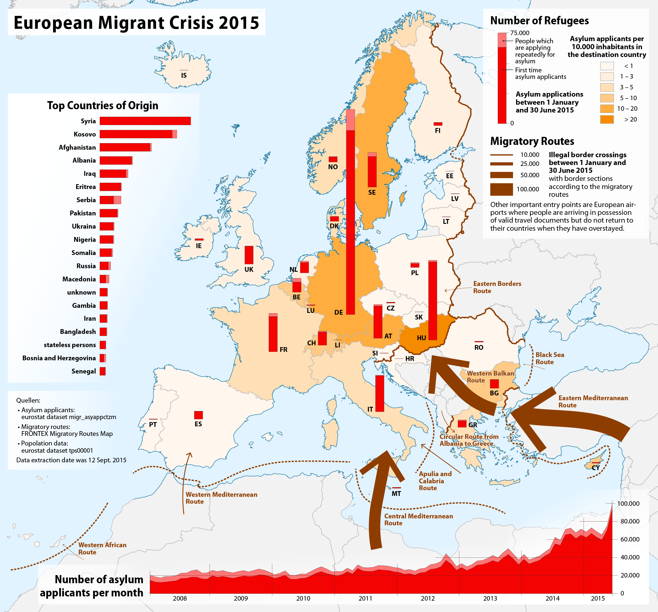 European migrant crisis. Asylum applicants in Europe between 1 January and 30 June 2015.